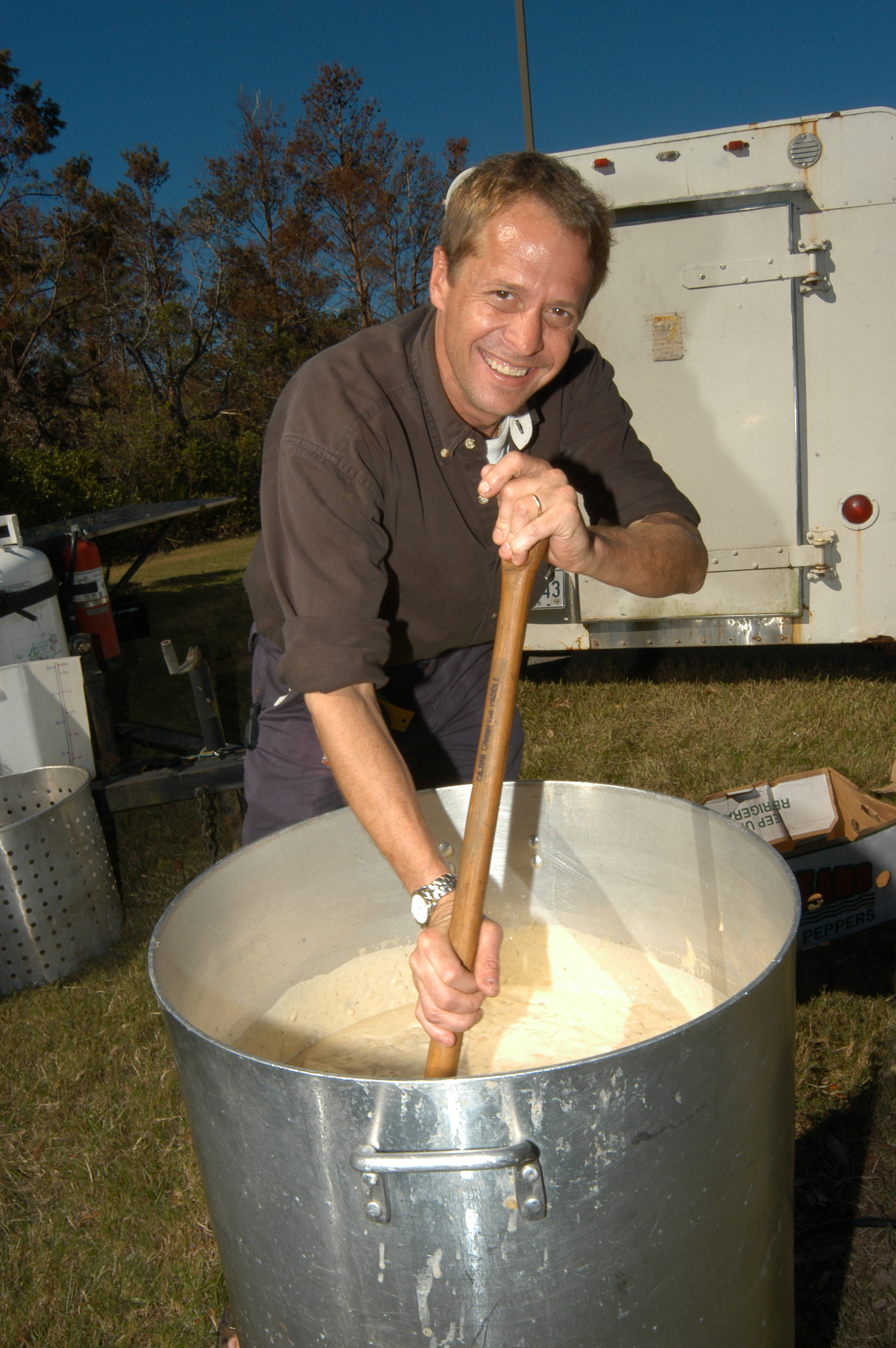 Warrington, FL, October 16, 2004 -- Callan Sinclair of the Louisiana Grill in Covington, Louisiana volunteers his time and expertise in preparing the alfredo sauce for thousands of meals giving out to Warrington, FL residents affected by Hurricane Ivan. FEMA Photo/Mark Wolfe